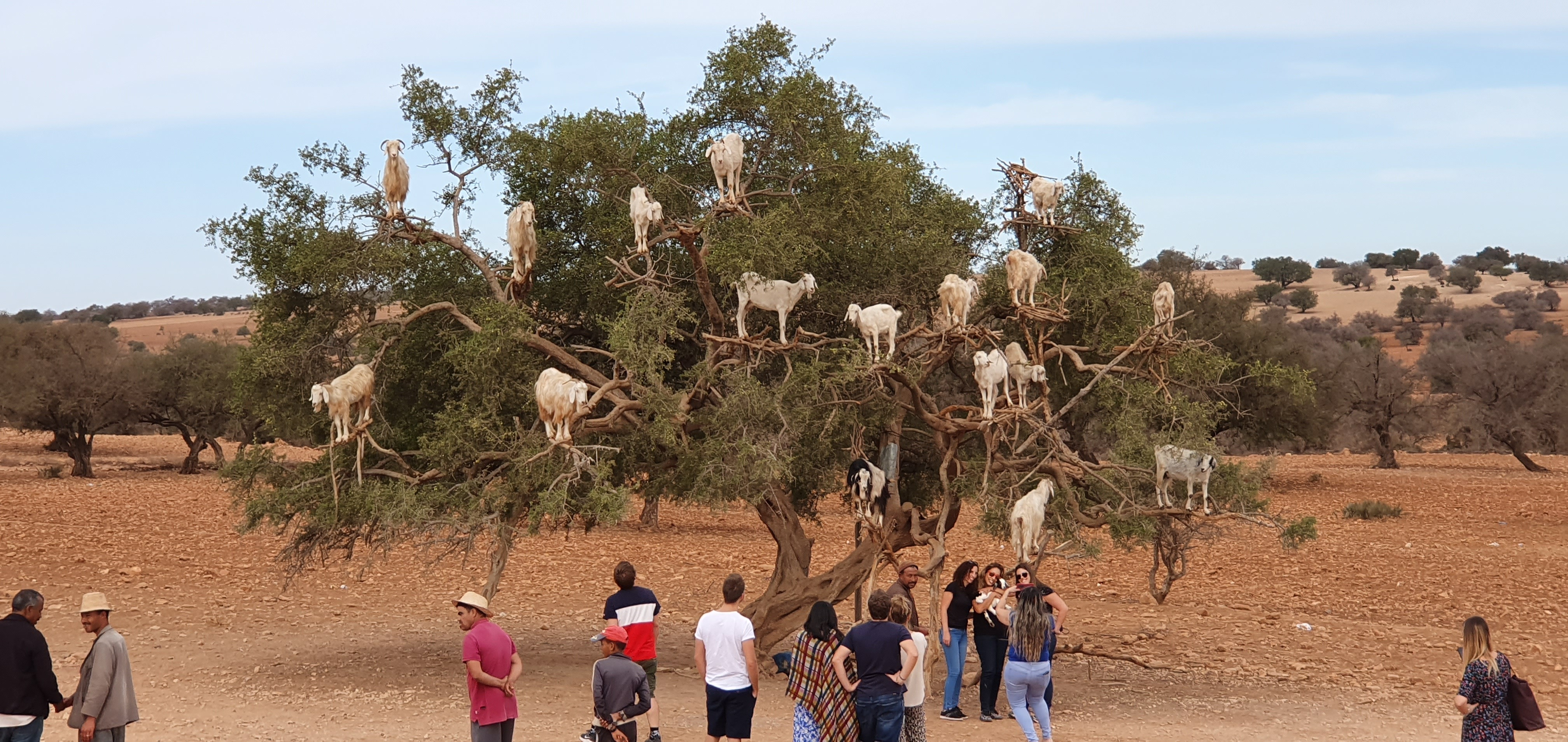 Goats in argan trees on the way between Essaouira and Marrakesh